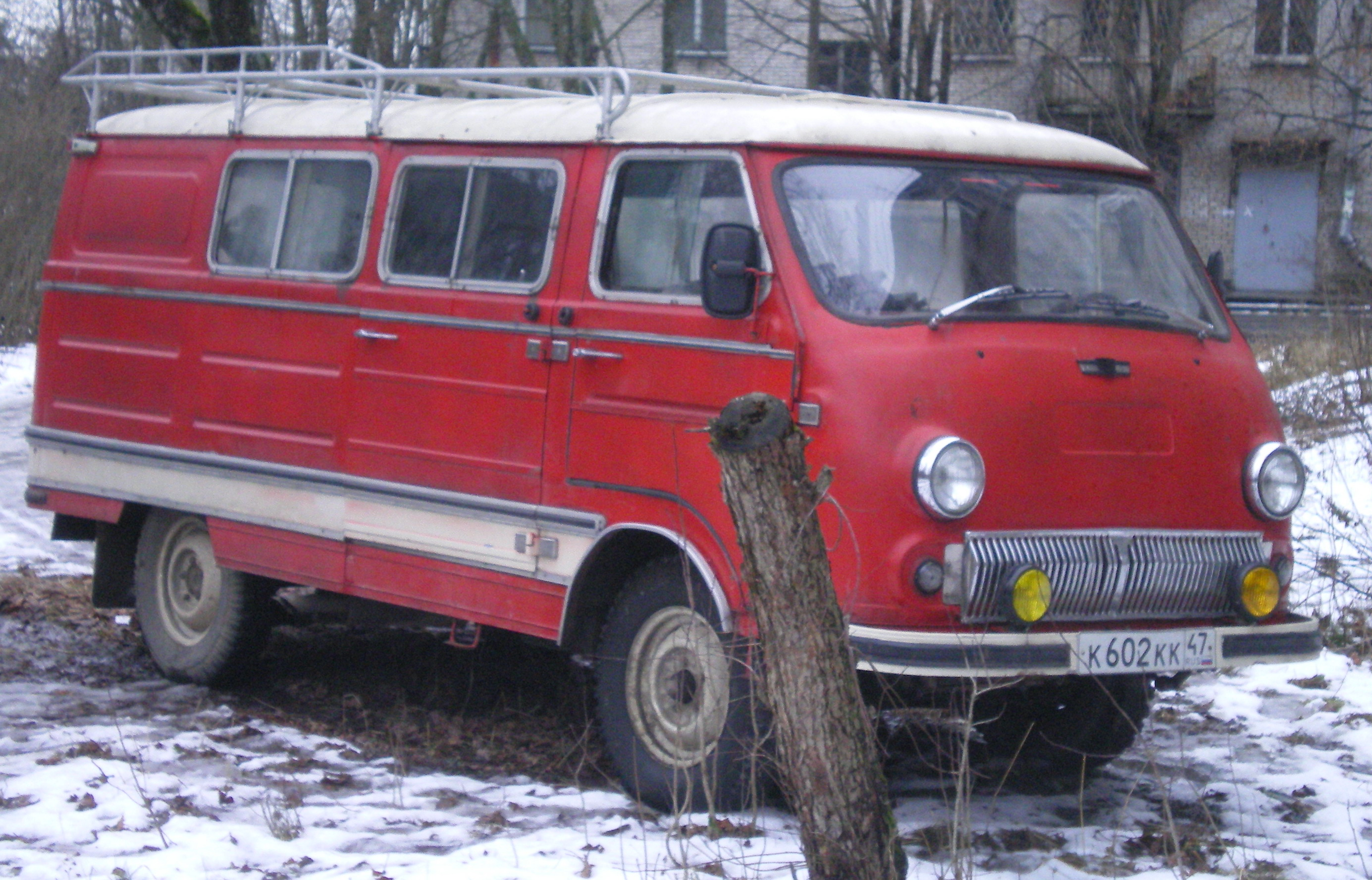 YerAZ-762VGP (passenger/cargo modification of cargo van YerAZ-762, being in turn a variant of RAF-977 minibus). Front grill is not original (from GAZ-24 Volga)